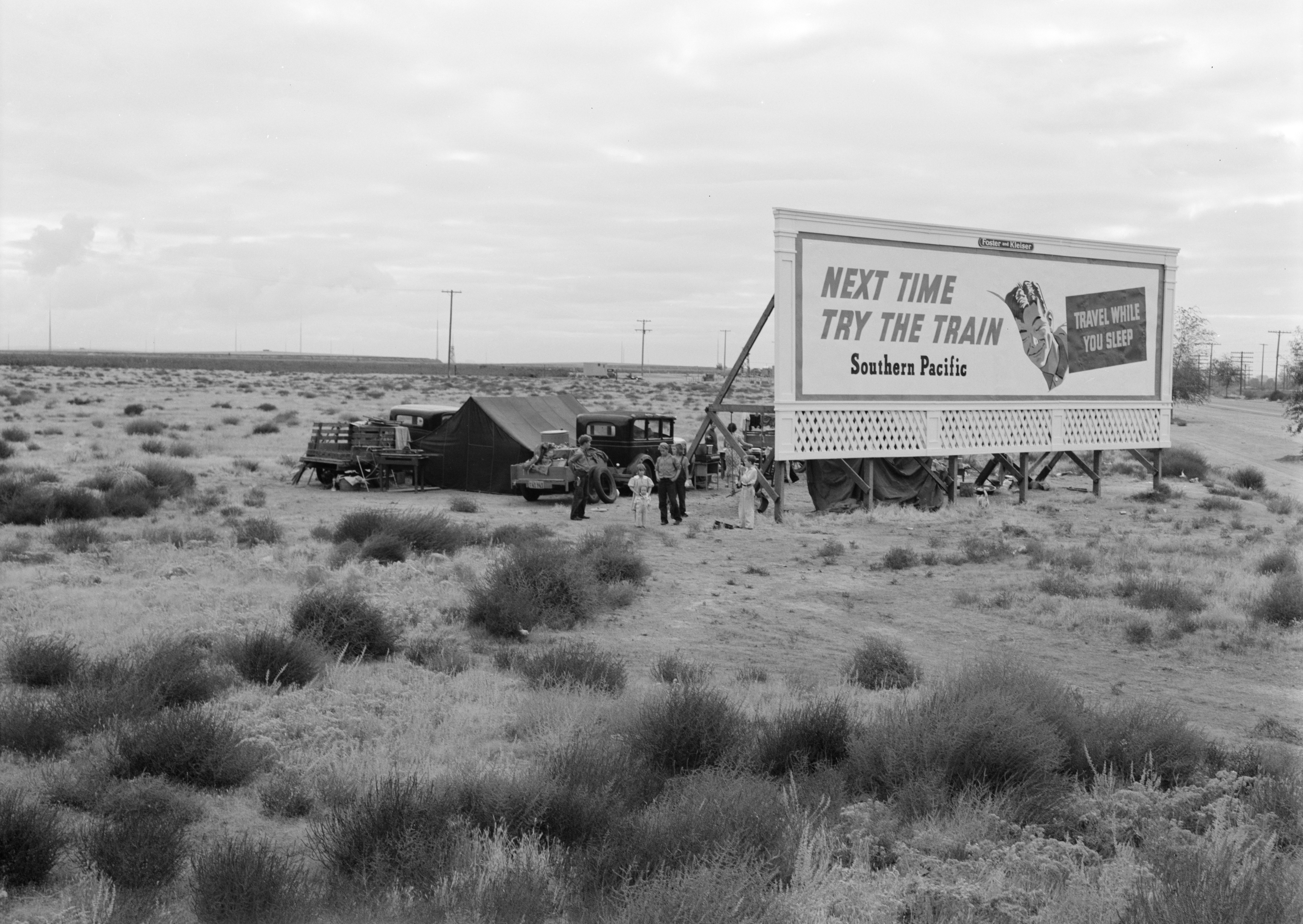 "Three families camped on the plains along U.S. 99 in California. They are camped behind a billboard which serves as a partial windbreak. All are in need of work." 1938. Billboard reads "Next Time Try The Train. Southern Pacific. Travel While You Sleep".